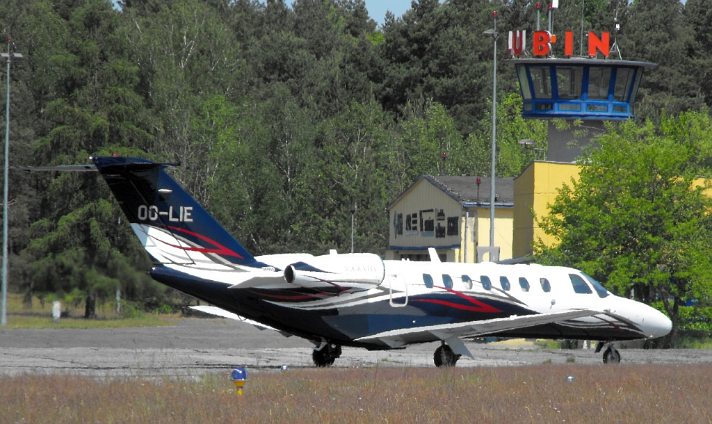 Cessna 525B Citation Jet 3 at Lubin Airport (EPLU), in the background tower is visible.